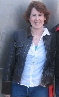 Picture of Kelley Armstrong provided by her:People can take it and do what they want. I figure as soon as I post a picture to my site or anywhere on my discussion board, it's fair game for downloading.